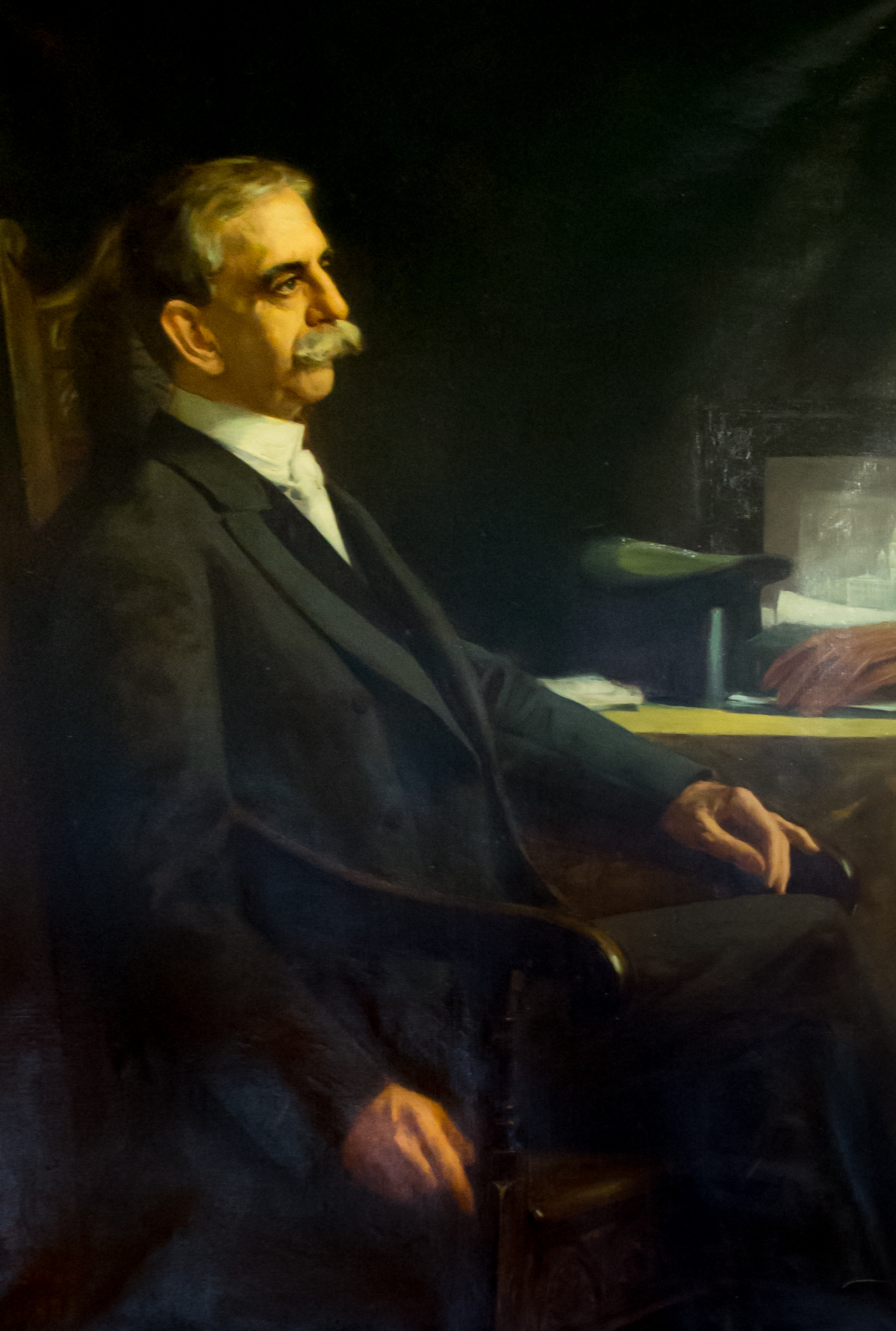 Official portrait of Herbert W. Ladd (1843-1913), Governor of Rhode Island. Note that he is pictured with his bicycle in the background, and behind that is a sketch of the Rhode Island State House.